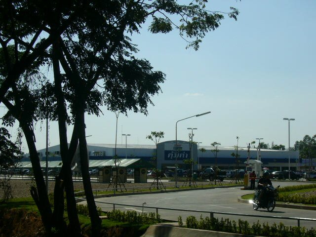 A Tesco-Lotus hypermarket. One has to pass a checkpoint before entering the premises.